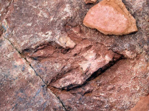 Red Fleet Dinosaur Tracks Park, Utah Dilophosaurus footprint By Phil Konstantin